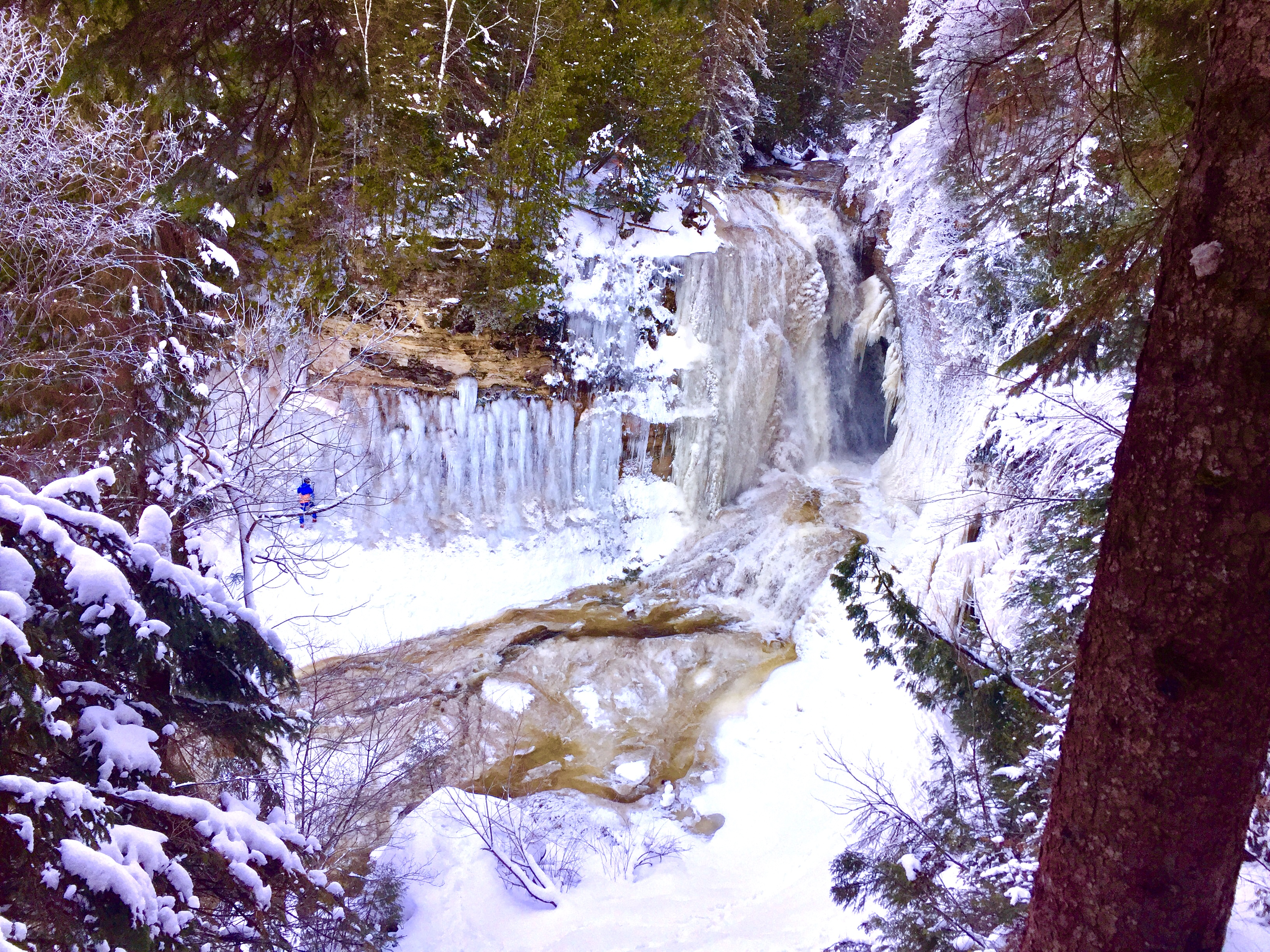 A frozen Miner's falls is one of the many ice formations to attract climbers across the country.